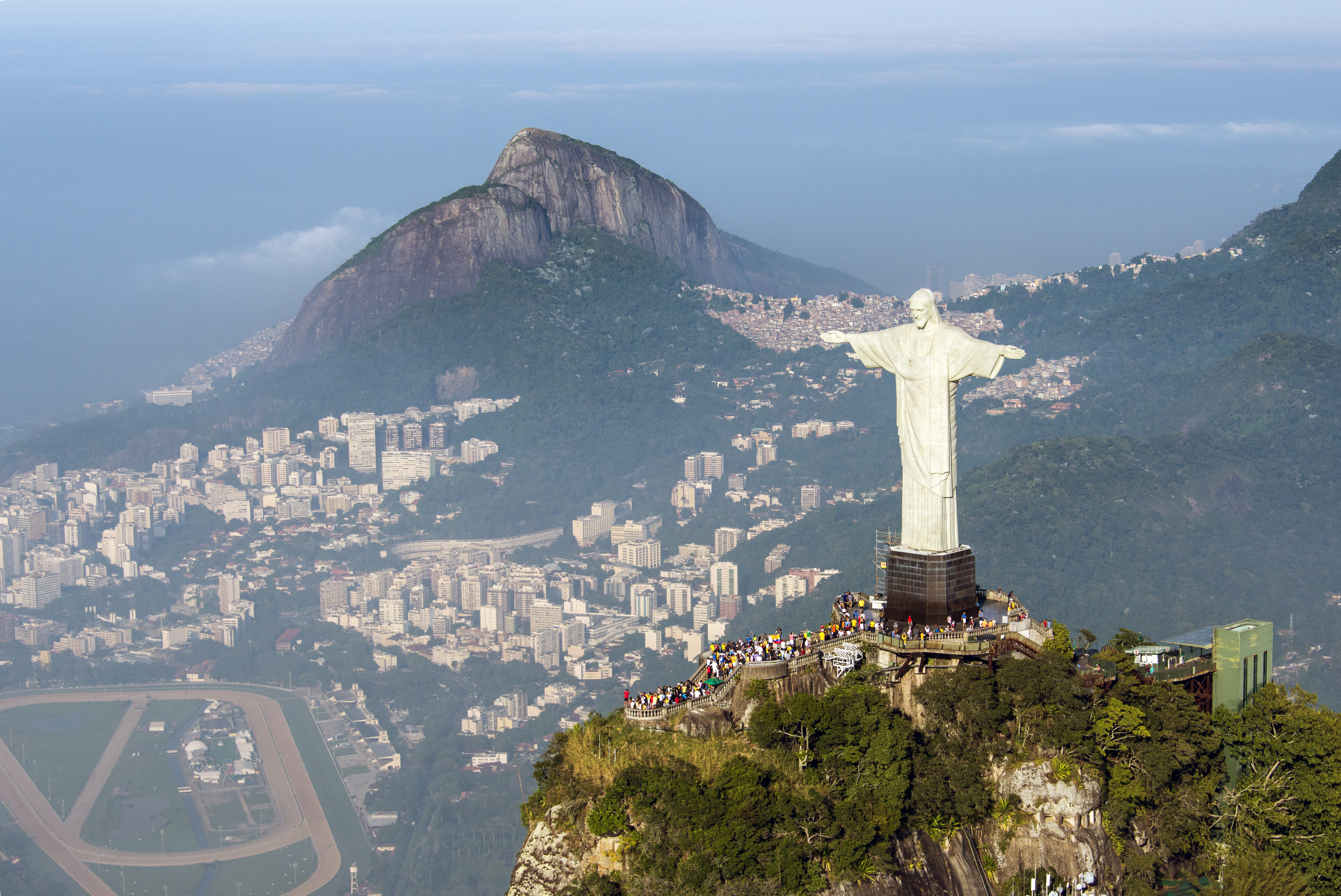 cristor redentor Christ the Redeemer statue aerial view rio de janeiro brazil 2014